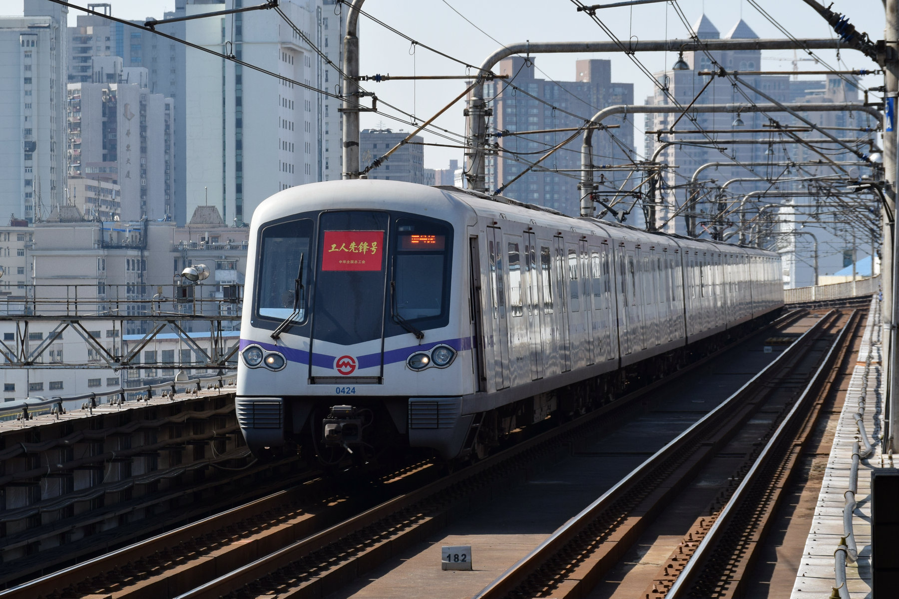 Shanghai Metro Line 4 AC05 Train was entering Baoshan Road Station.